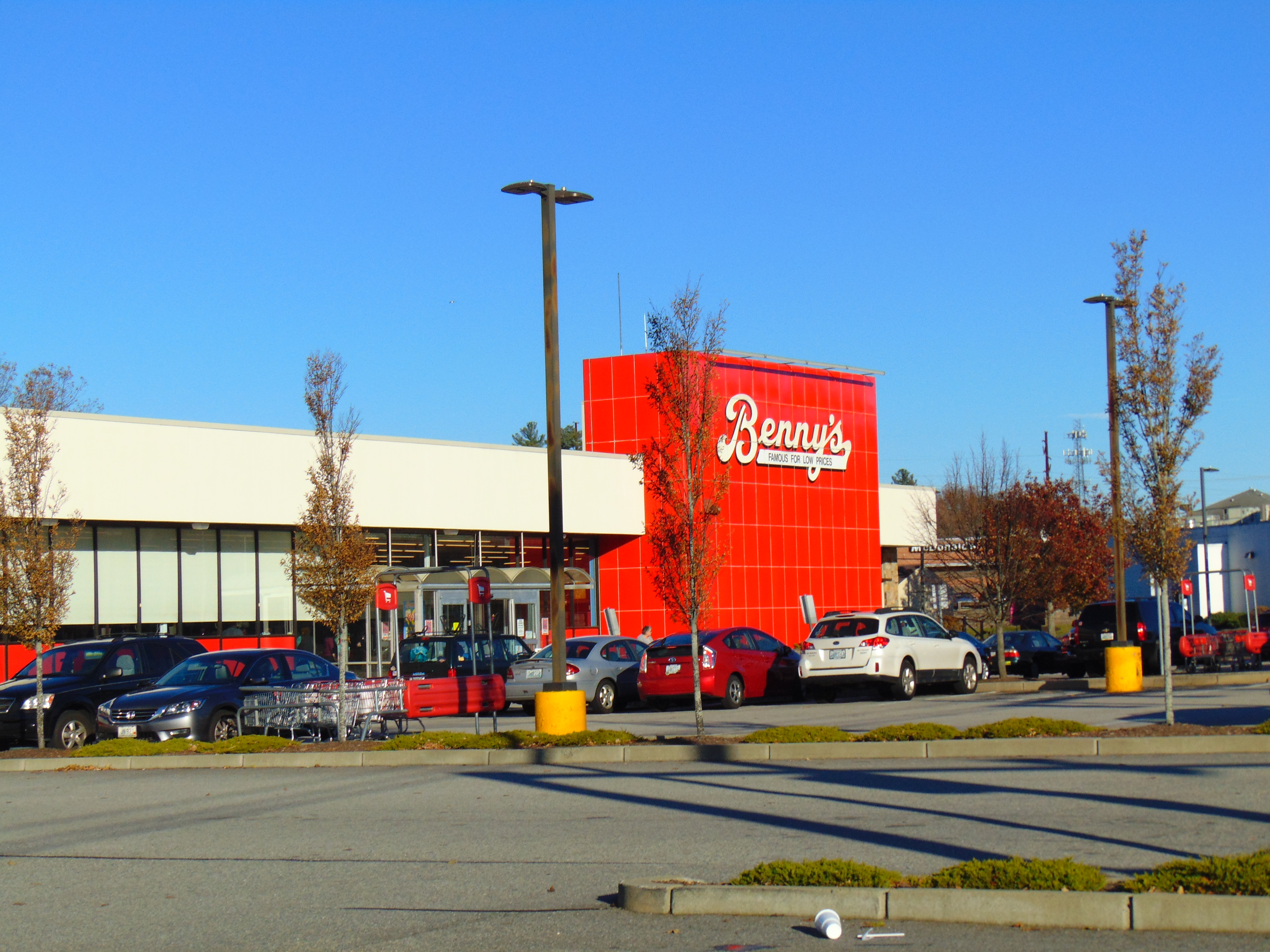 This is the Benny's in Greenville, Rhode Island before closing.